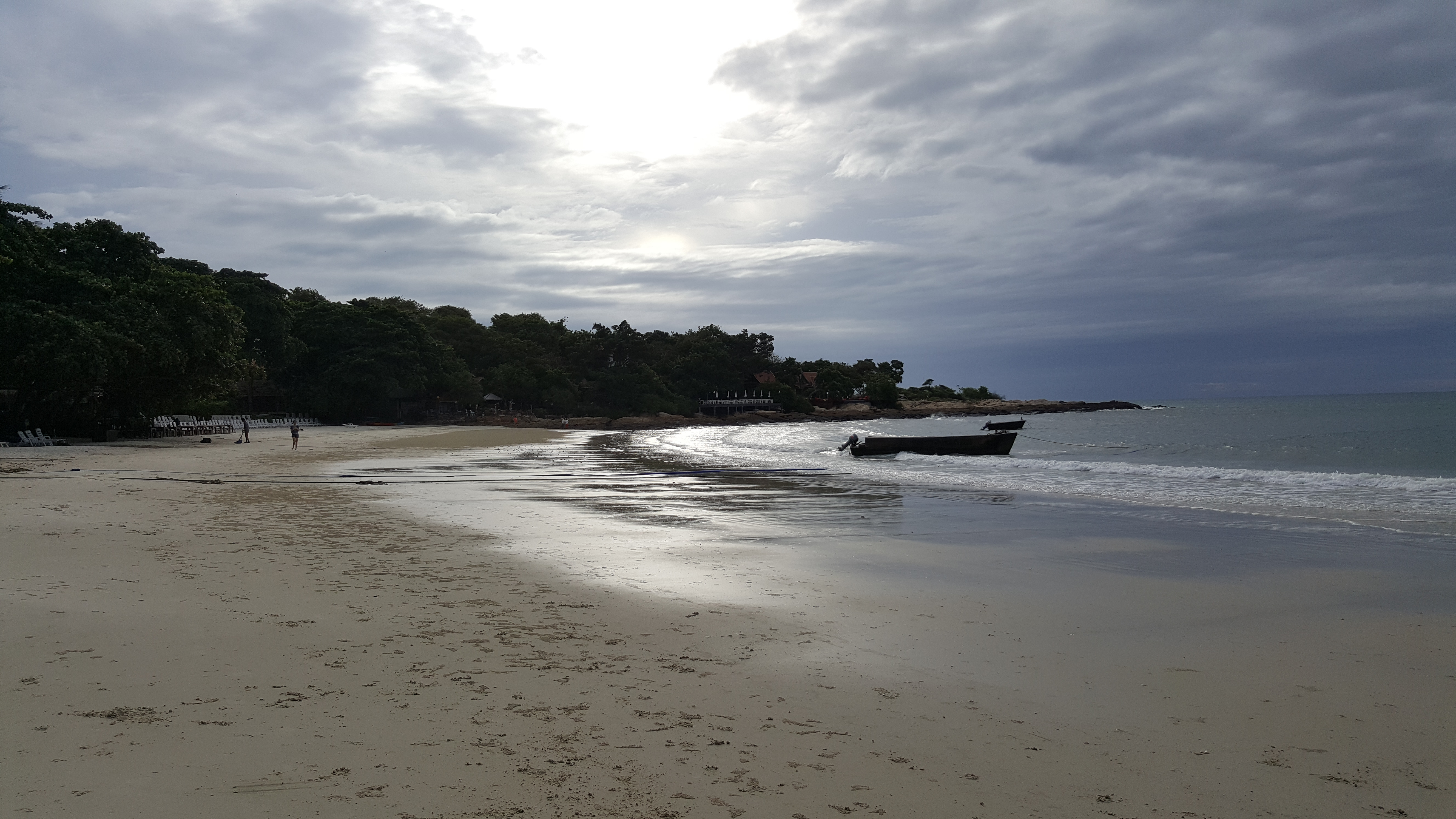 Thailand, Koh Samet island, Wong Duean beach, early morning.